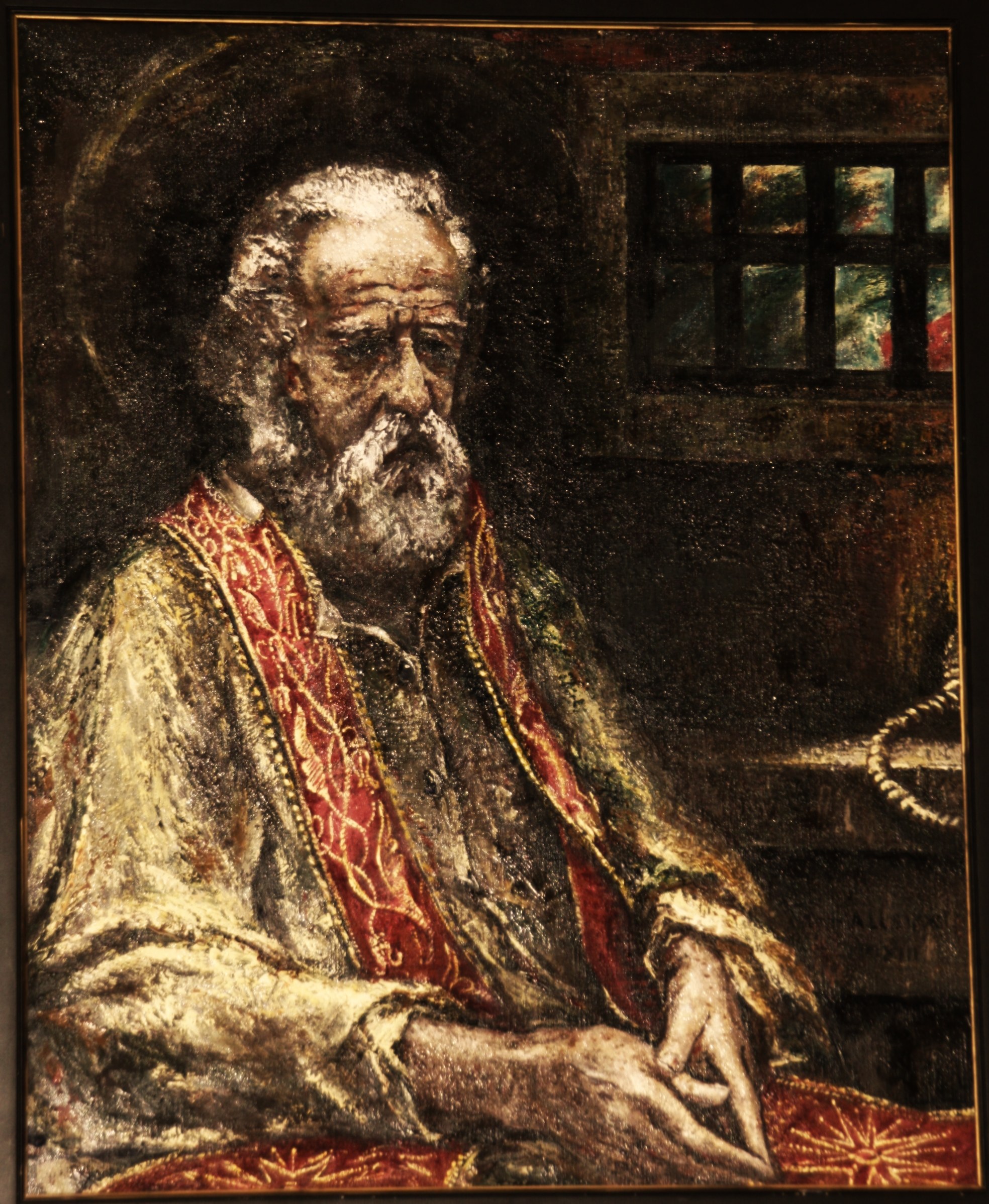 portrait of bressed Priest Vladimir Ghika, archbishop's residence, Bucharest